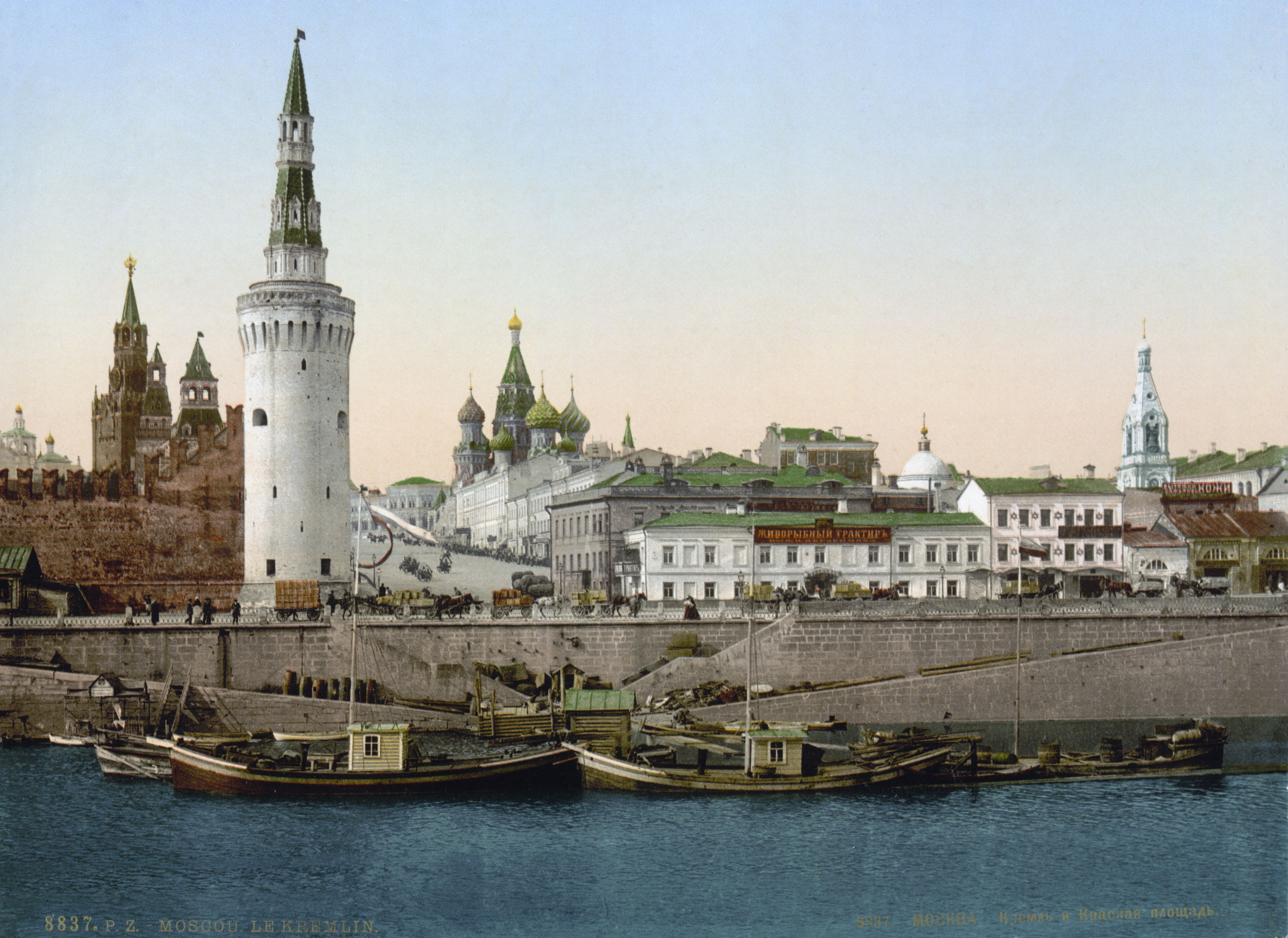 19th-century postcard of St Basil's Slope in Moscow.